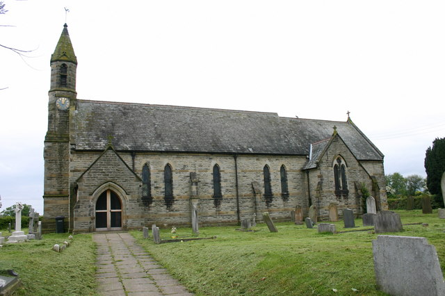 Parish church of St John the Evangelist, Dalton, Hambleton, North Yorkshire, seen from the south